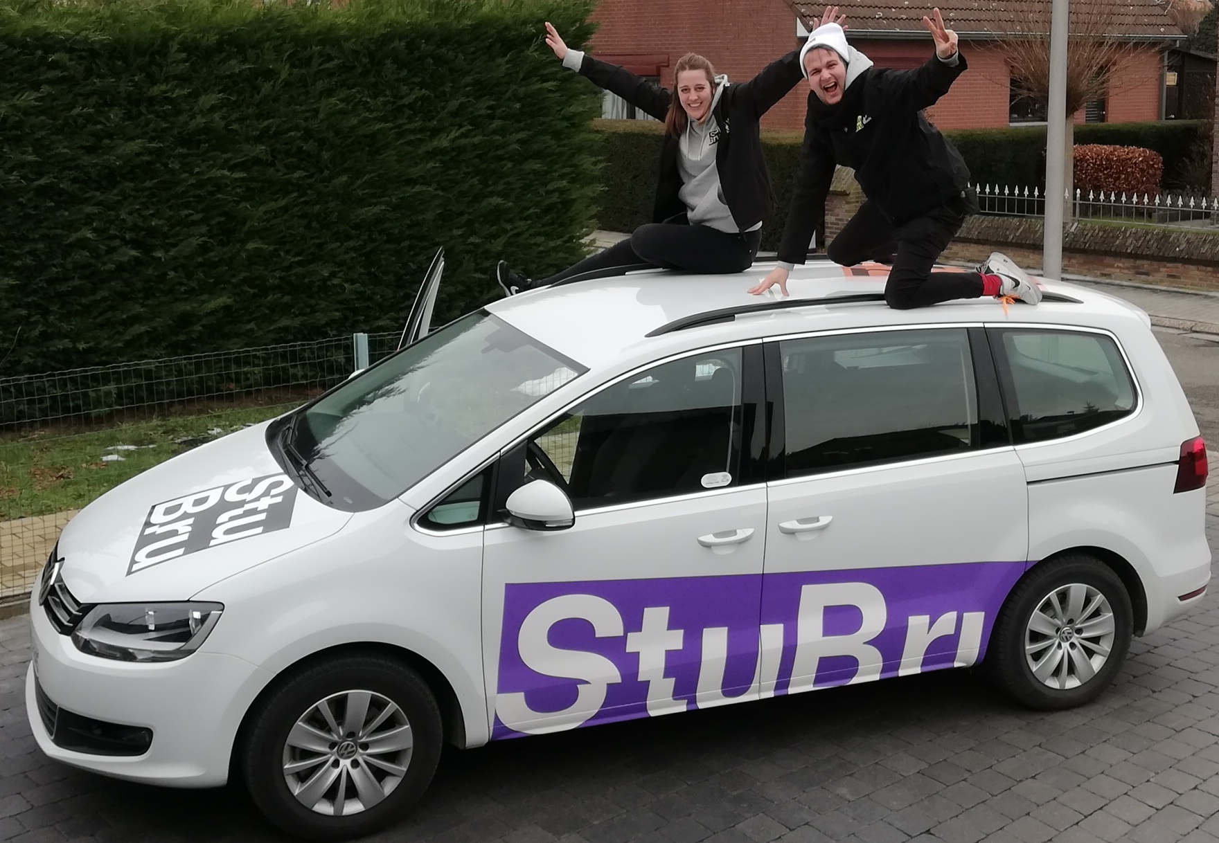 Members of the StuBru promo team with VRT car with StuBru labeling (logos 2019)